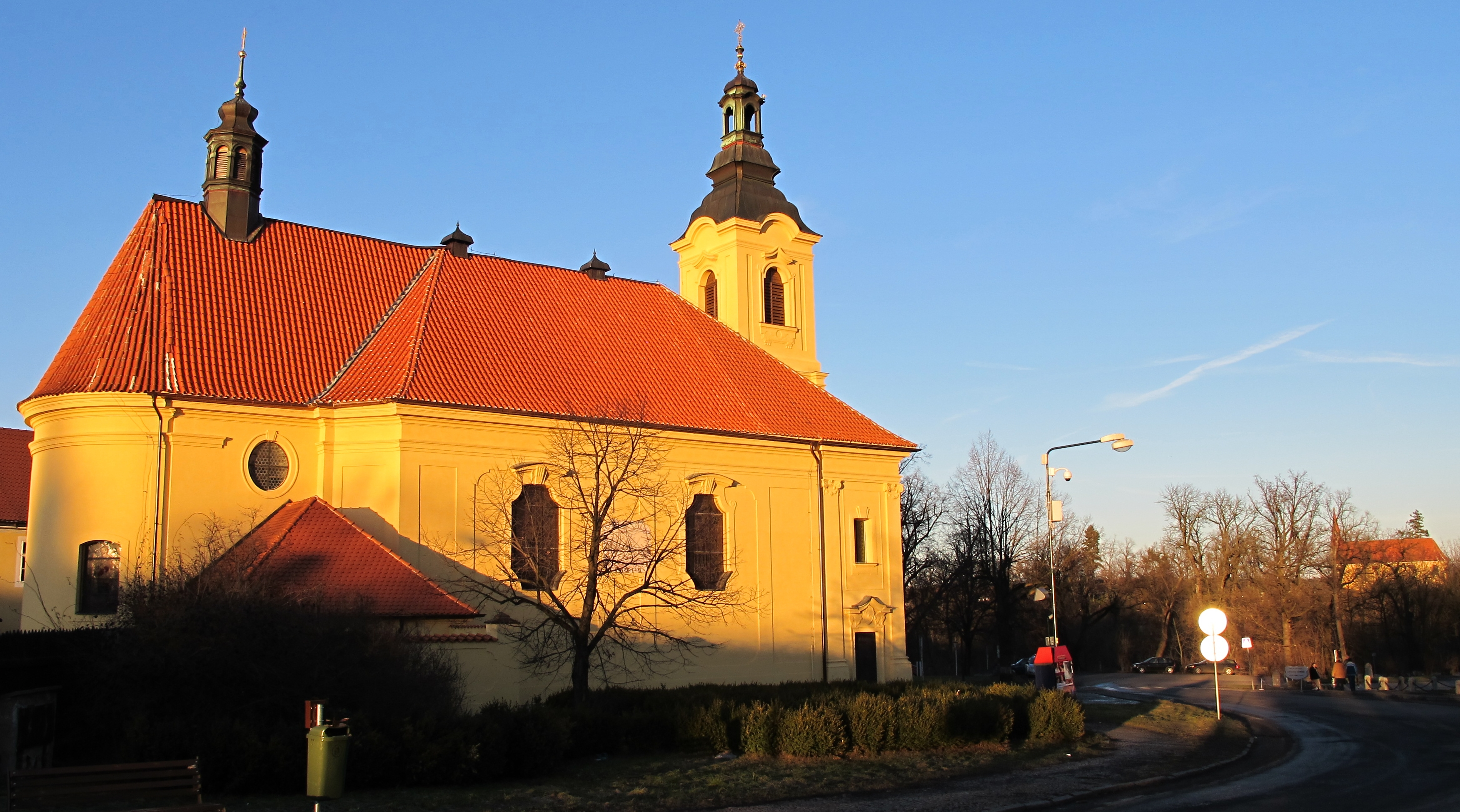 Church of the Holy Trinity, Dobříš in Příbram District